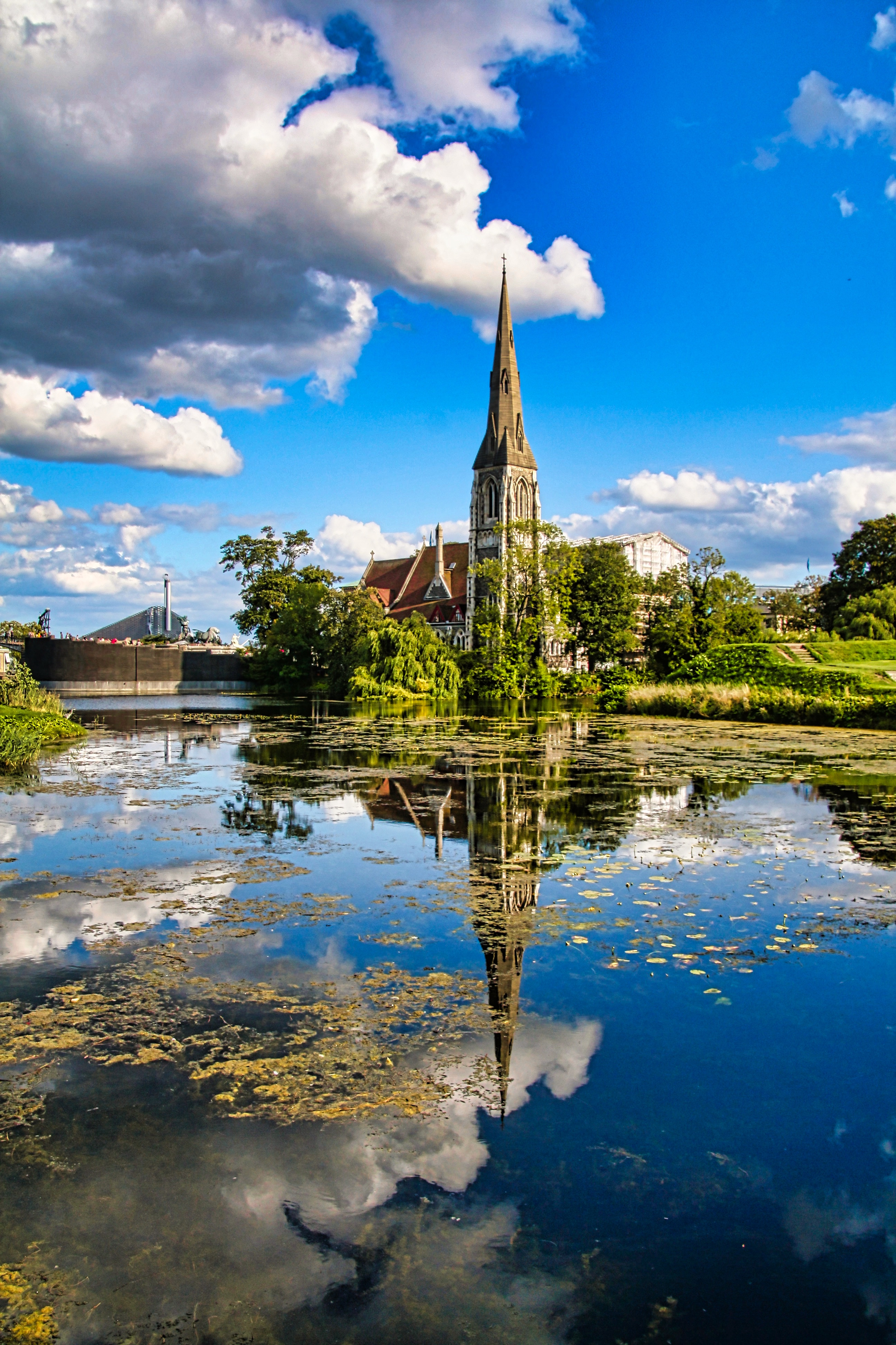 St. Alban's Church, locally often referred to simply as the English Church, is an Anglican church in Copenhagen, Denmark. It was built from 1885 to 1887 for the growing English congregation in the city. Designed by Arthur Blomfield as a traditional English parish church in the Gothic Revival style, it is in a peaceful park setting at the end of Amaliegade in the northern part of the city centre, next to the citadel Kastellet and the Gefion Fountain and Langelinie. The church with the Gefion Fountain in the background Source: (20190821-165819-1045-1000d-a1b5)